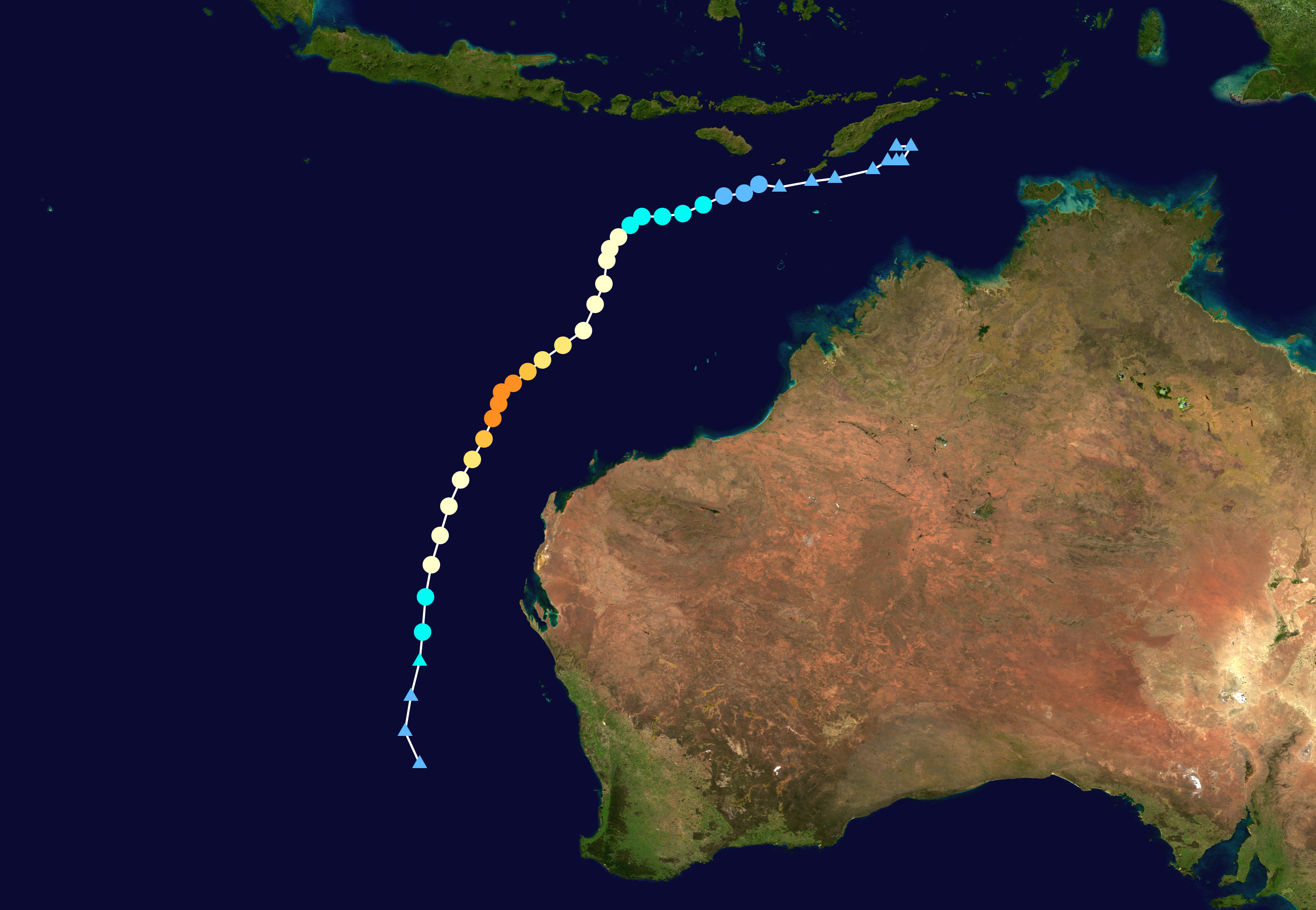 Track map of Severe Tropical Cyclone Narelle of the 2012-13 Australian region cyclone season. The points show the location of the storm at 6-hour intervals. The colour represents the storm's maximum sustained wind speeds as classified in the Saffir–Simpson scale (see below), and the shape of the data points represent the nature of the storm, according to the legend below. Saffir–Simpson scale Tropical depression≤38 mph≤62 km/h Category 3111–129 mph178–208 km/h Tropical storm39–73 mph63–118 km/h Category 4130–156 mph209–251 km/h Category 174–95 mph119–153 km/h Category 5≥157 mph≥252 km/h Category 296–110 mph154–177 km/h Unknown Storm type Tropical cyclone Subtropical cyclone Extratropical cyclone / Remnant low / Tropical disturbance / Monsoon depression